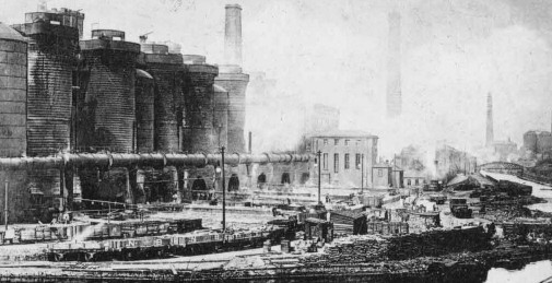 Picture of Summerlee blast furnaces in Coatbridge at turn of century